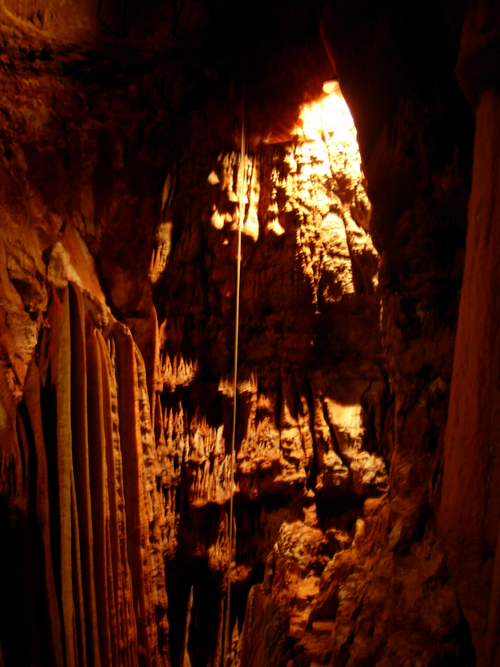 Beredine cave (grotto), Istria County, Croatia